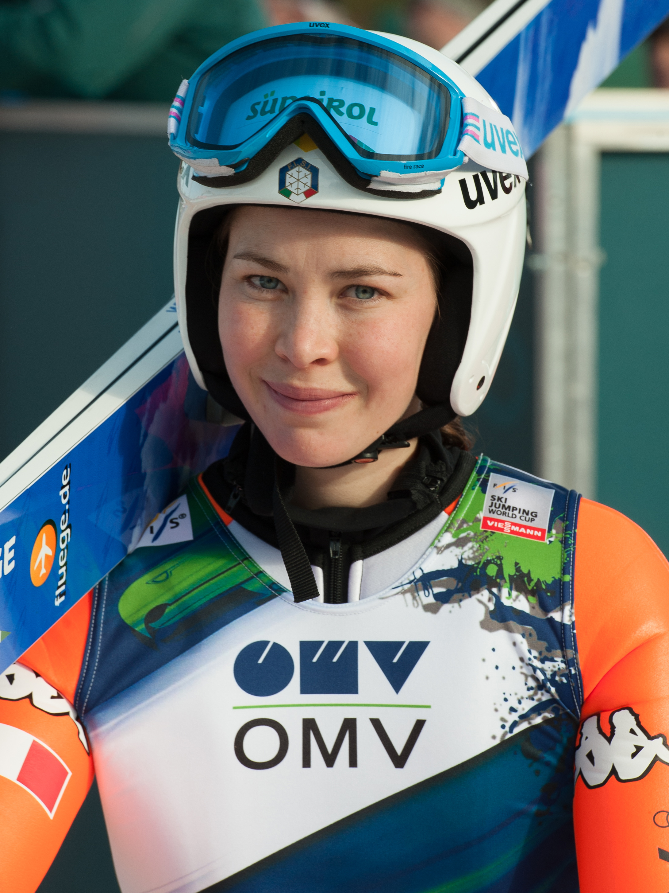 FIS Ski Jumping World Cup Hinzenbach/Upper Austria, Sun 1 Feb 2015. Image shows Elena Runggaldier (ITA).